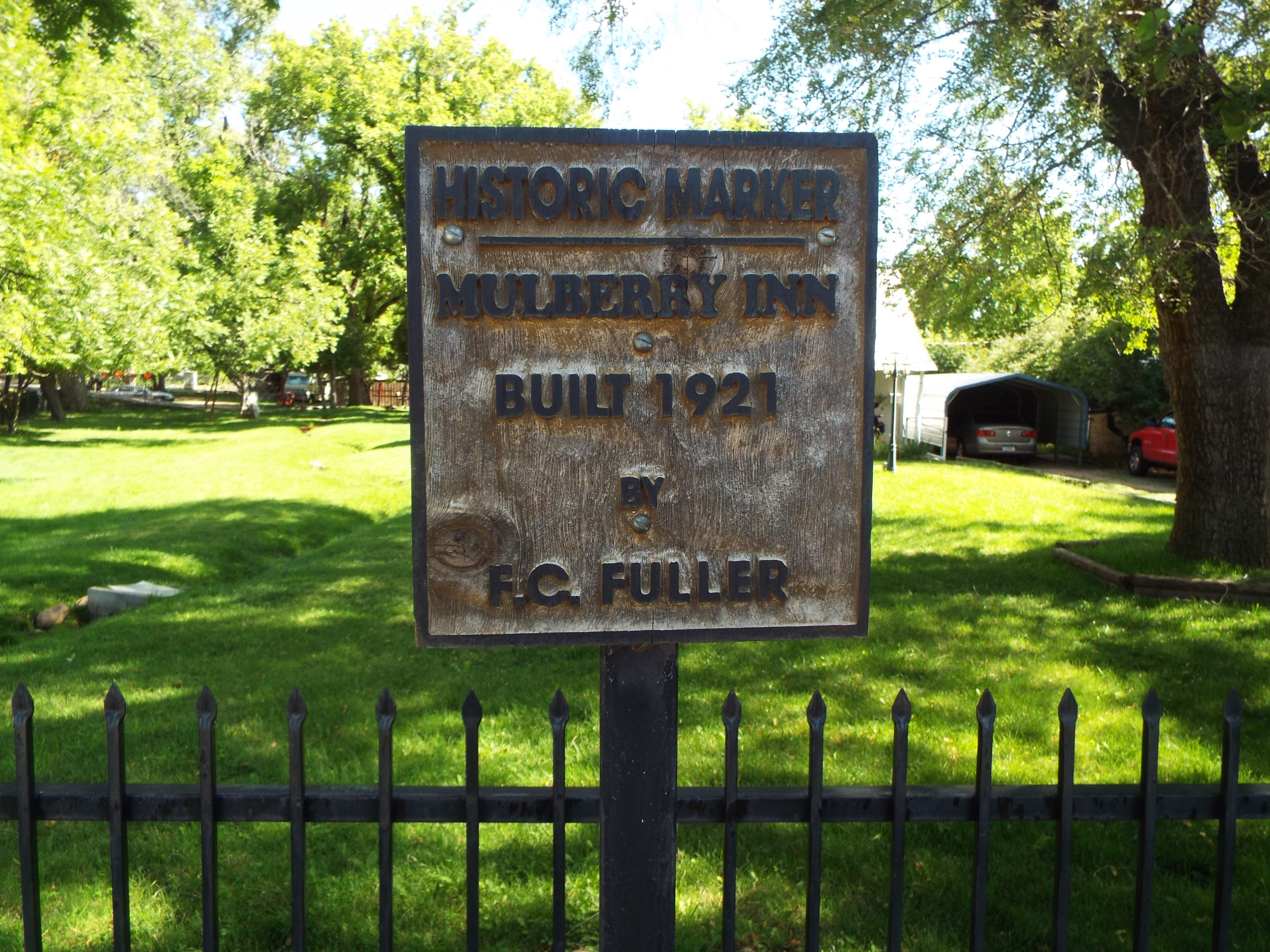 The historic Mulberry Inn -1921-Marker